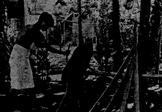 Pulling out buntal straws from the stem